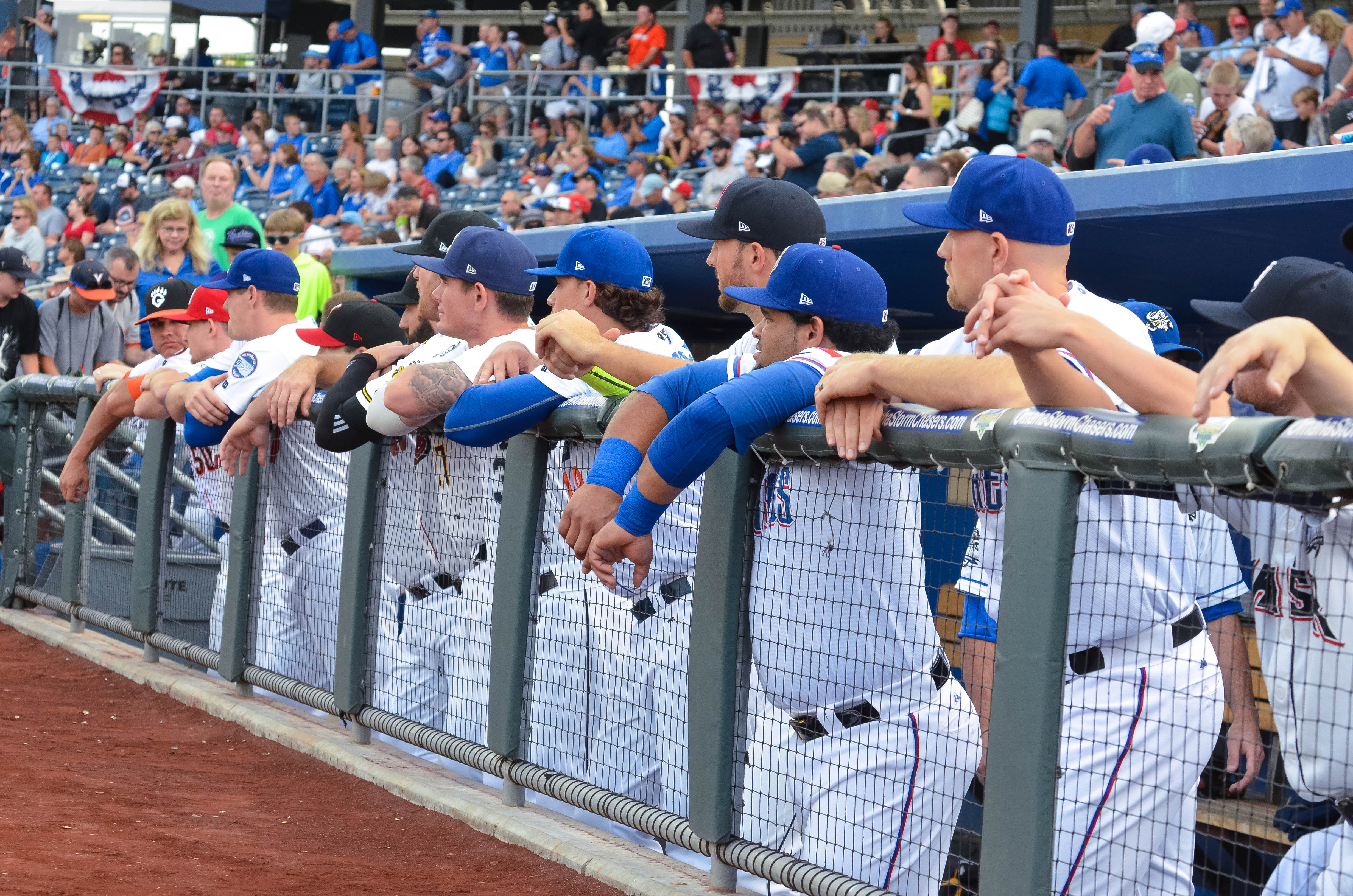 Minda Haas | 2015 USAGE INSTRUCTIONS: You are welcome to share or publish to your own site or social media account, but you MUST credit me, Minda Haas, or by my Twitter handle (@minda33) or Instagram (minda.haas).